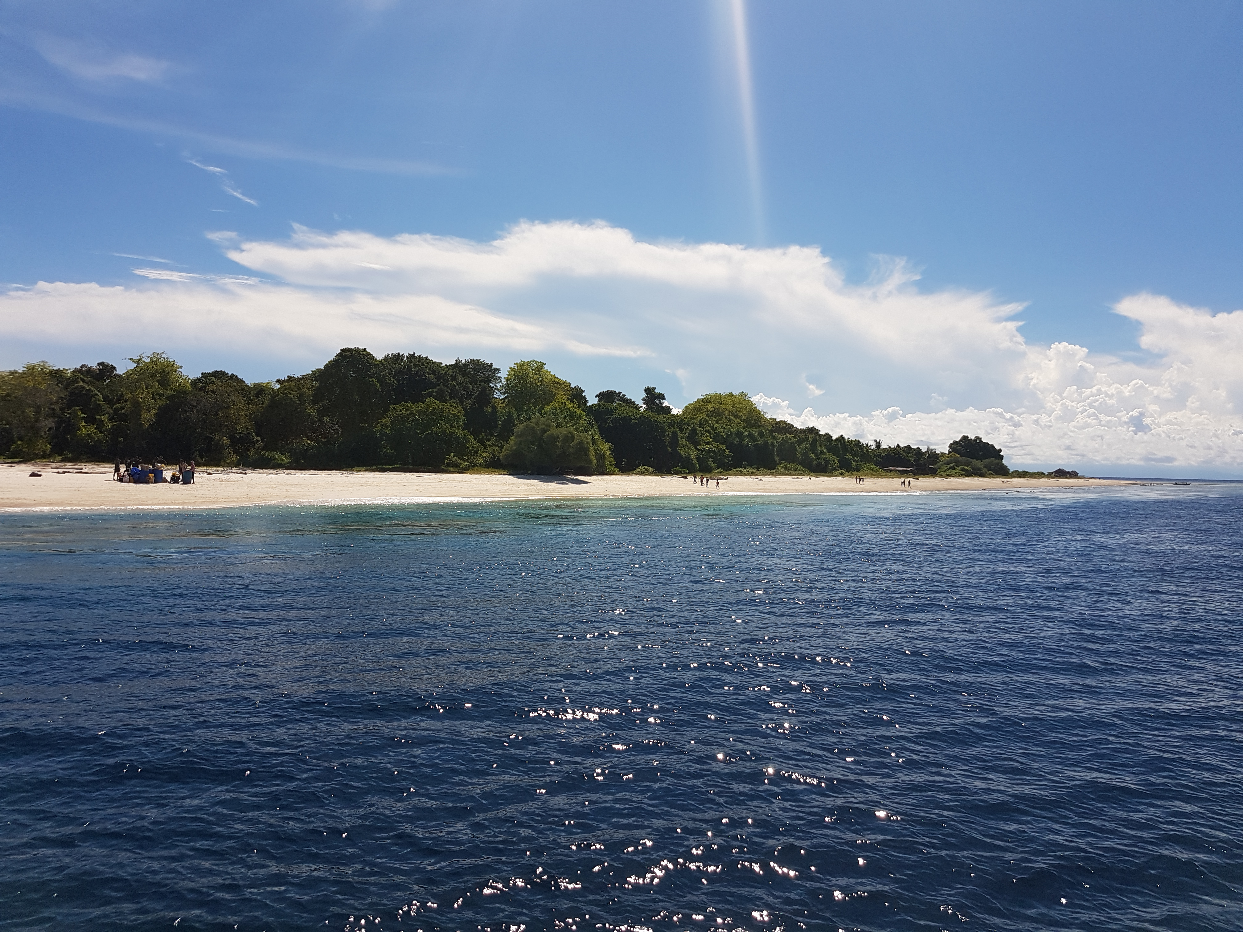 Panguan Island, also called as Malamanok Island. The southernmost island of the Philippines located at Celebes Sea near the Philippine-Malaysian border. This was taken using the joint mapping, reconnaissance, and deployment mission of the Philippine Marine Corps and Schadow1 Expeditions